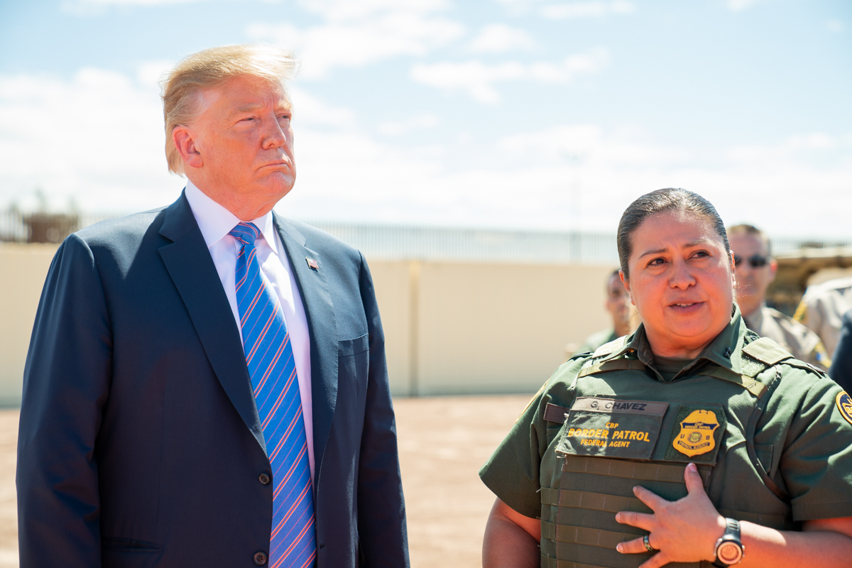 President Donald J. Trump , meeting with reporters, speaks with Gloria Chavez, the Chief Patrol Agent, El Centro Sector for U.S. Customs and Border Protection, during his inspection of the new border replacement wall, April 5, 2019, in Calexico, Calif. (Official White House Photo by Shealah Craighead)